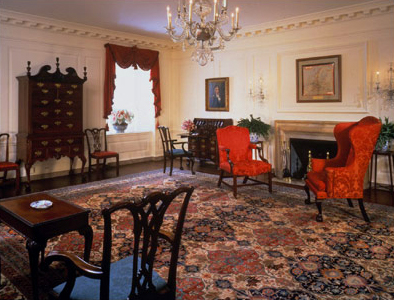 The Map Room of the White House looking southeast. Photographed during the administration of Bill Clinton.